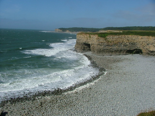 Tresilian Bay from the Cliffs above. looking towards St Donats and Nash Point